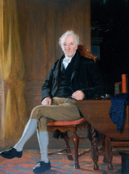 Thomas Bewick (1753–1828) oil on canvas, 38 x 29 cm 1827